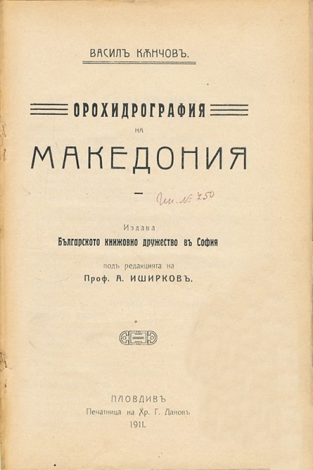 Orohydrography of Macedonia